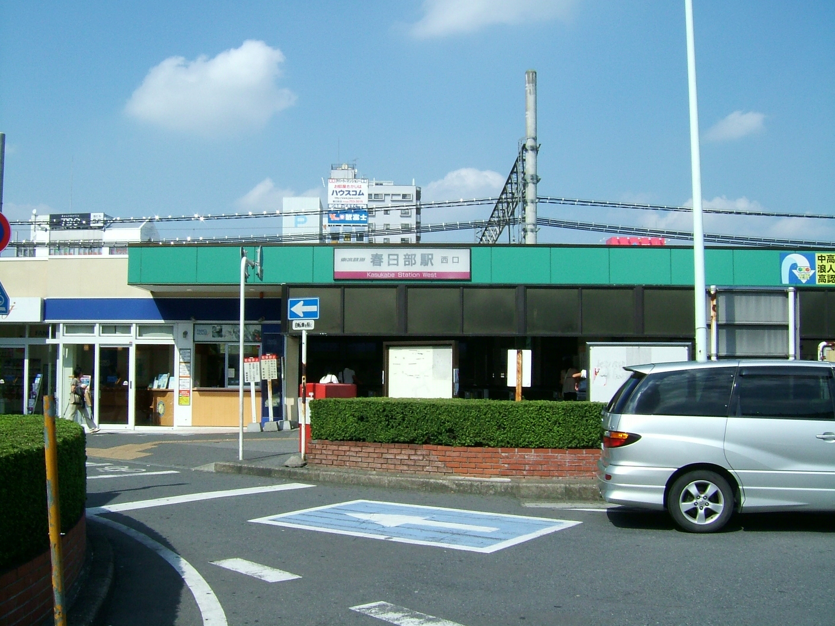 Tobu Railway Kasukabe Station west side